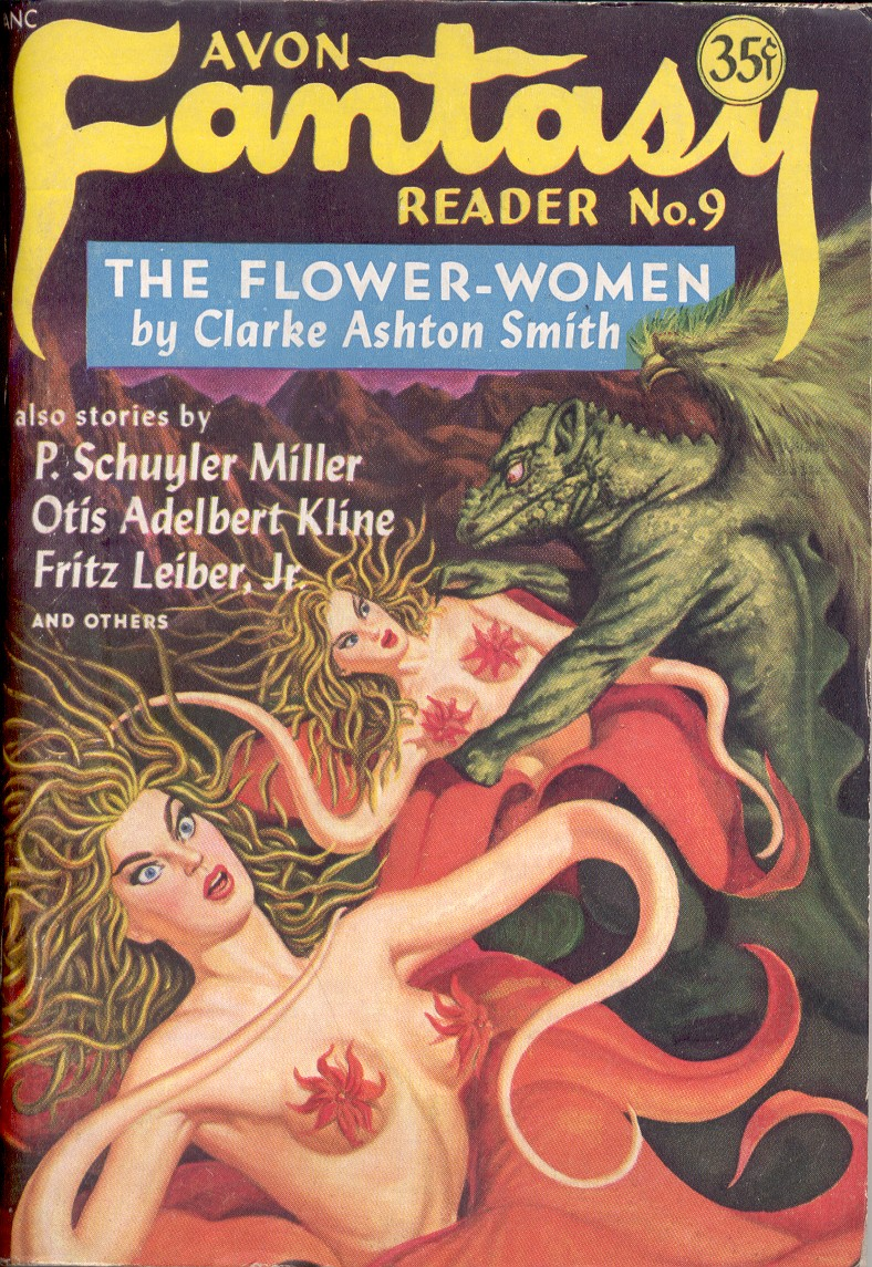 Cover of the fantasy fiction magazine Avon Fantasy Reader no. 9 (1949) featuring "The Flower-Women" by Clark Ashton Smith.